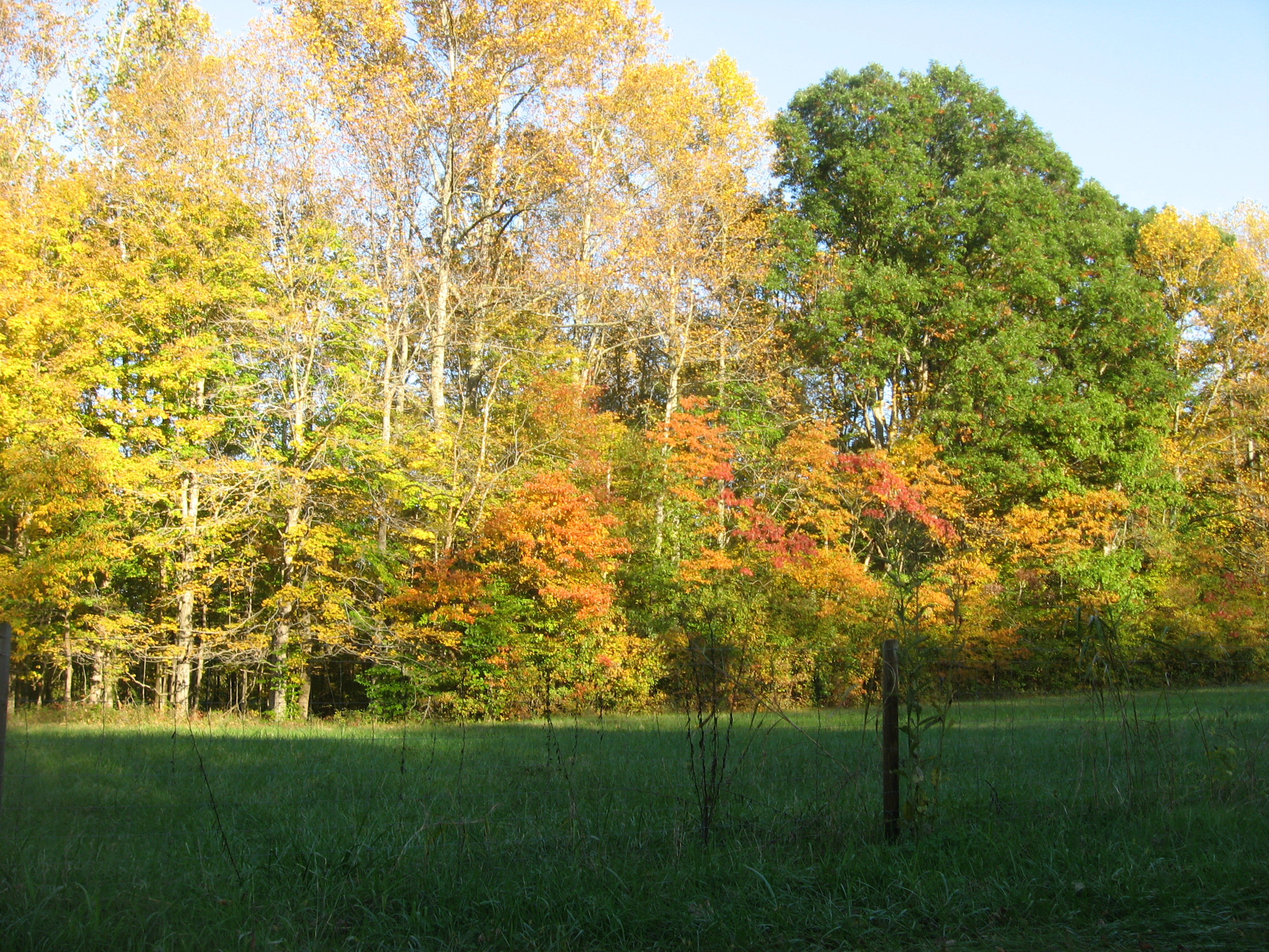 Trees along the eastern side of Heltonville - Bartlettsville Road between those two communities in Pleasant Run Township, Lawrence County, Indiana, United States.